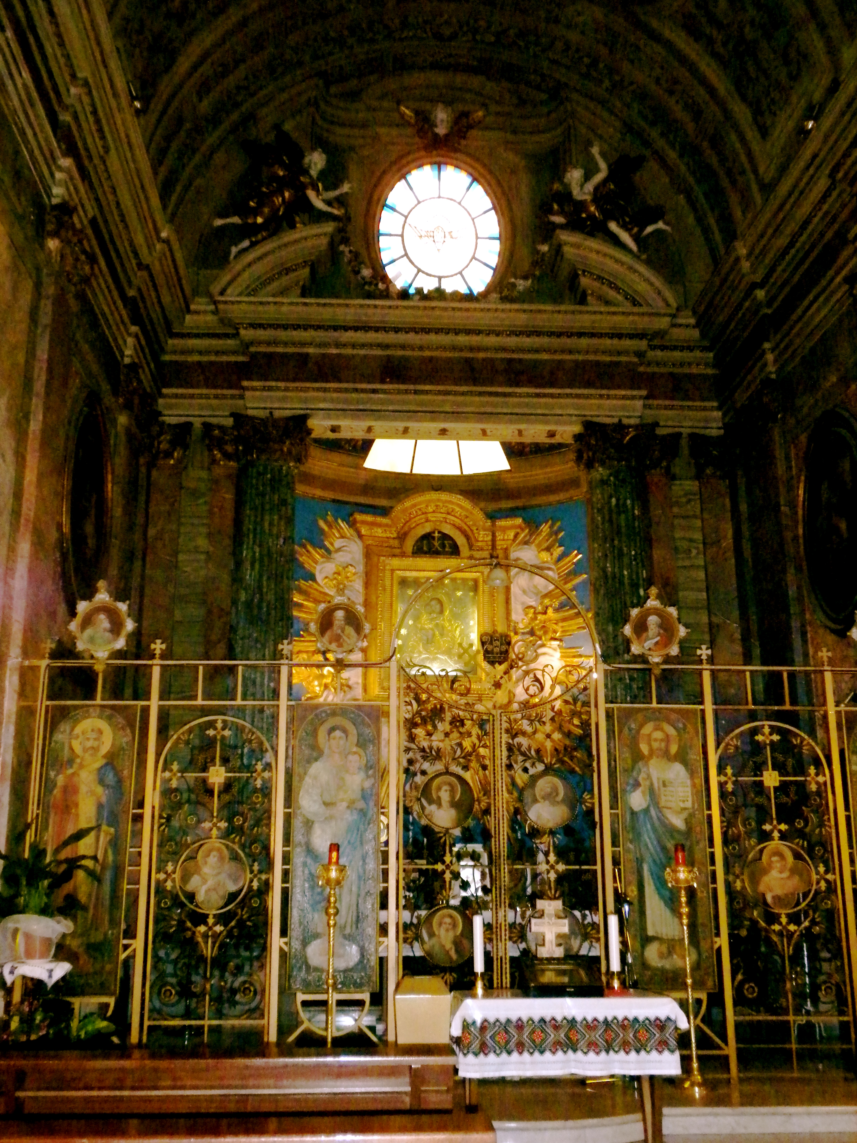 Interior of Ss. Sergio e Bacco, Rome